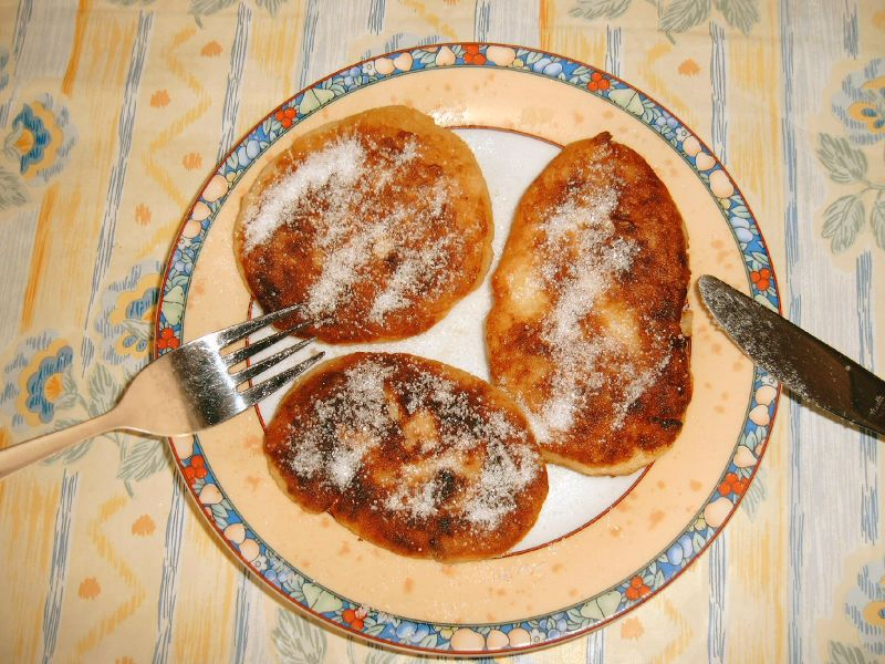 Quarkkäulchen - potato pancakes with quark. Specialty of Saxony, Germany.